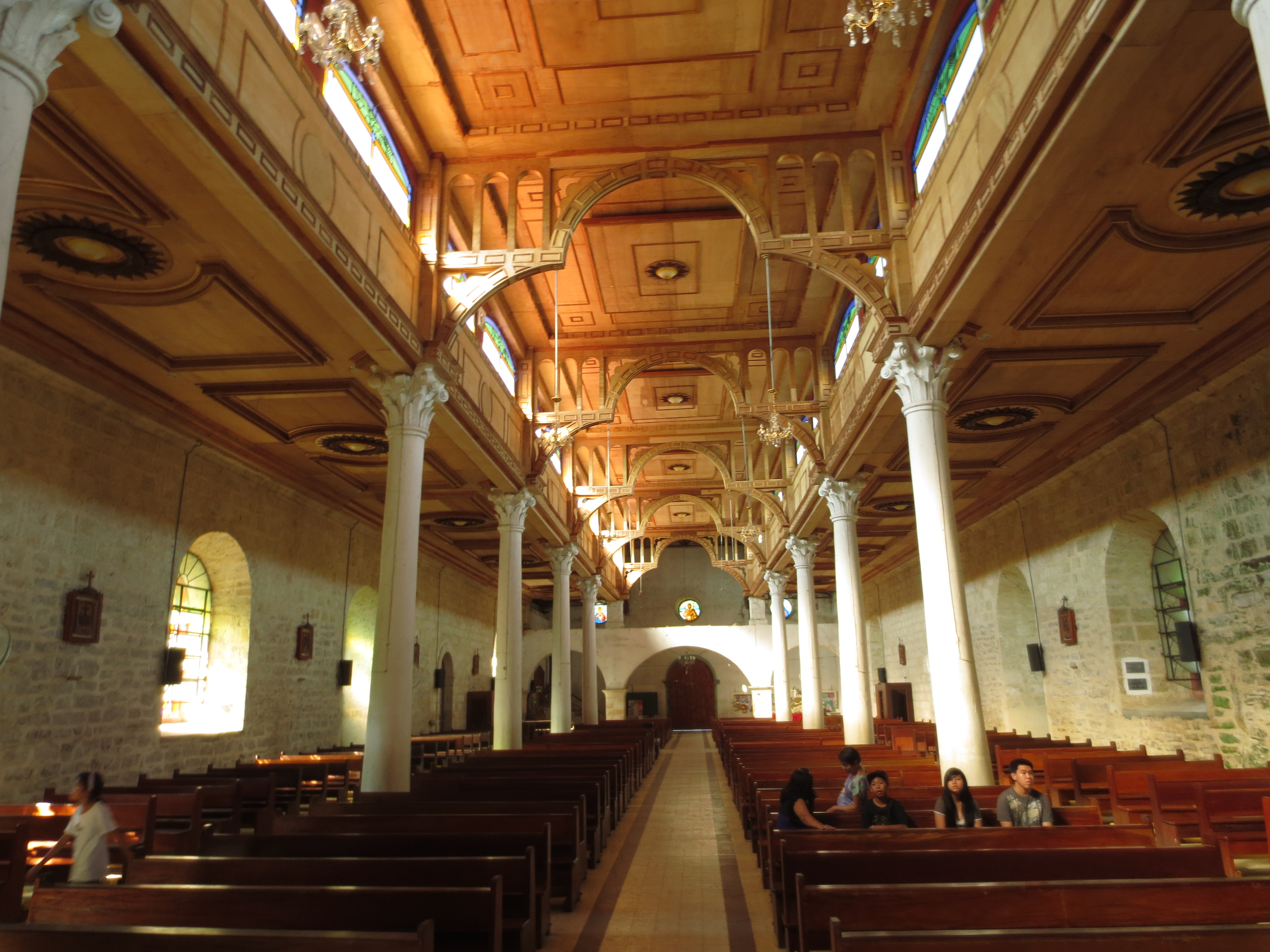 Aisle of the Dingle church.